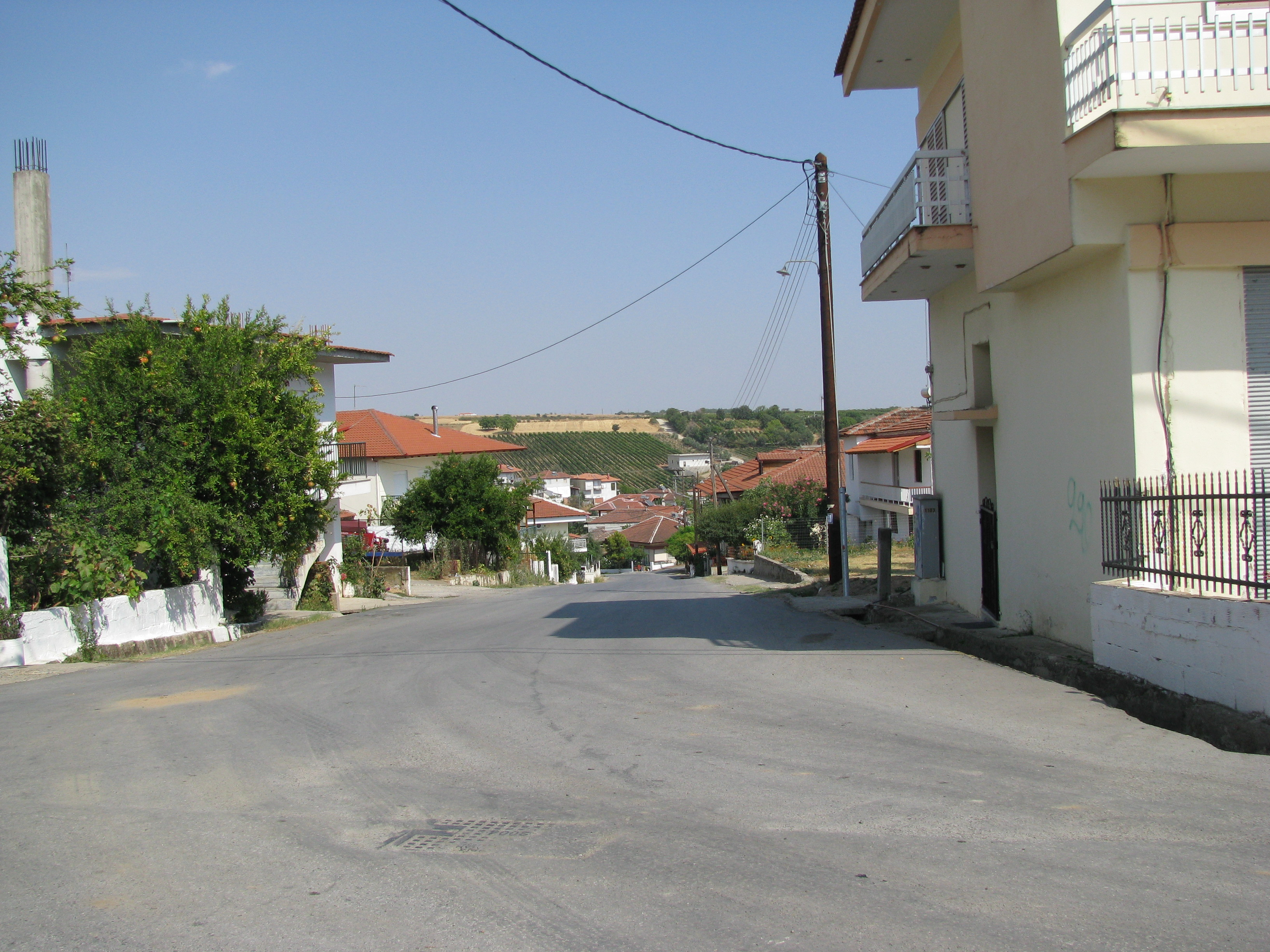 Village of Abelies, Pella prefecture, Greece